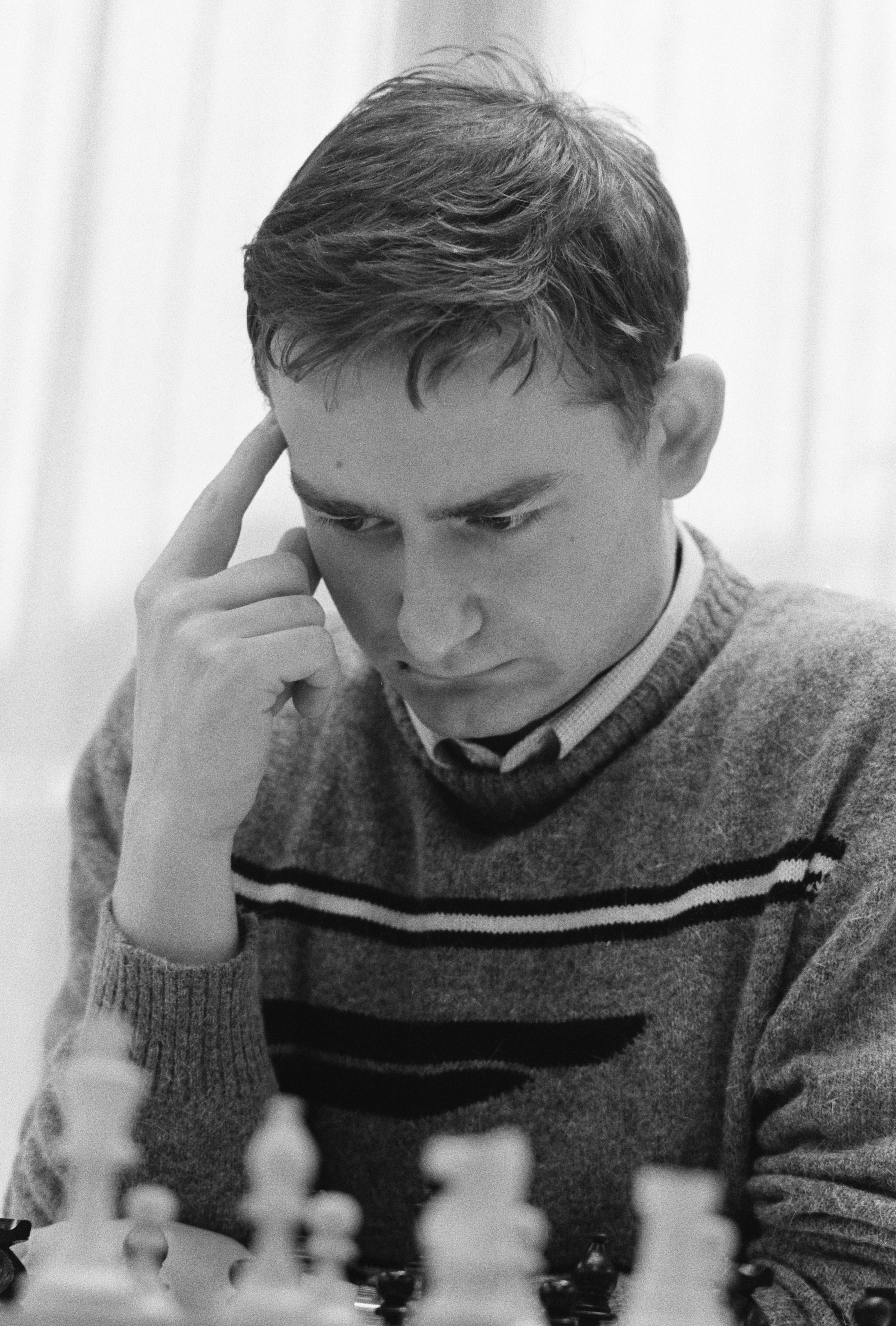 Valery Salov at the Euwe Tournament